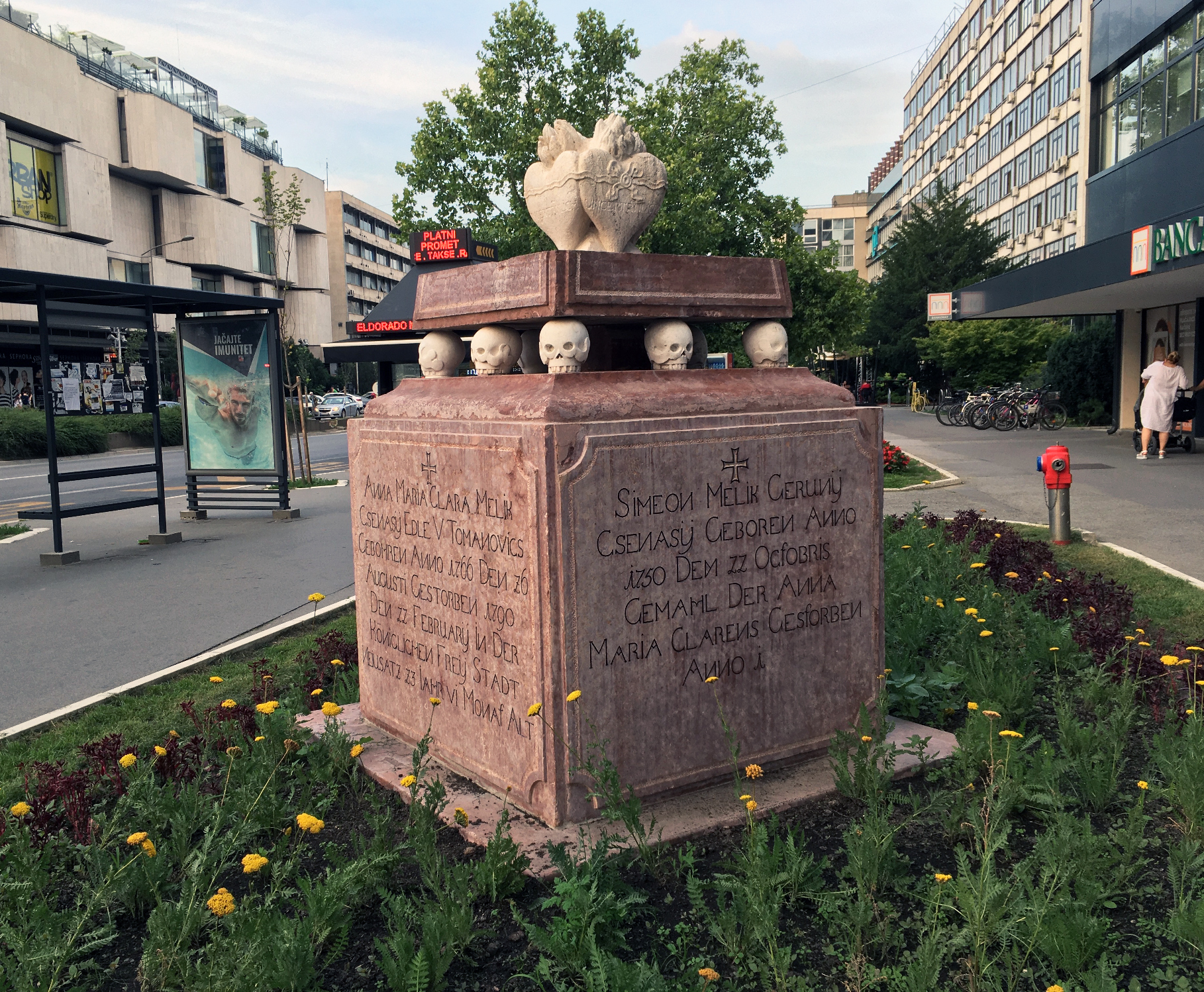 Monument of Armenian familly Černazi